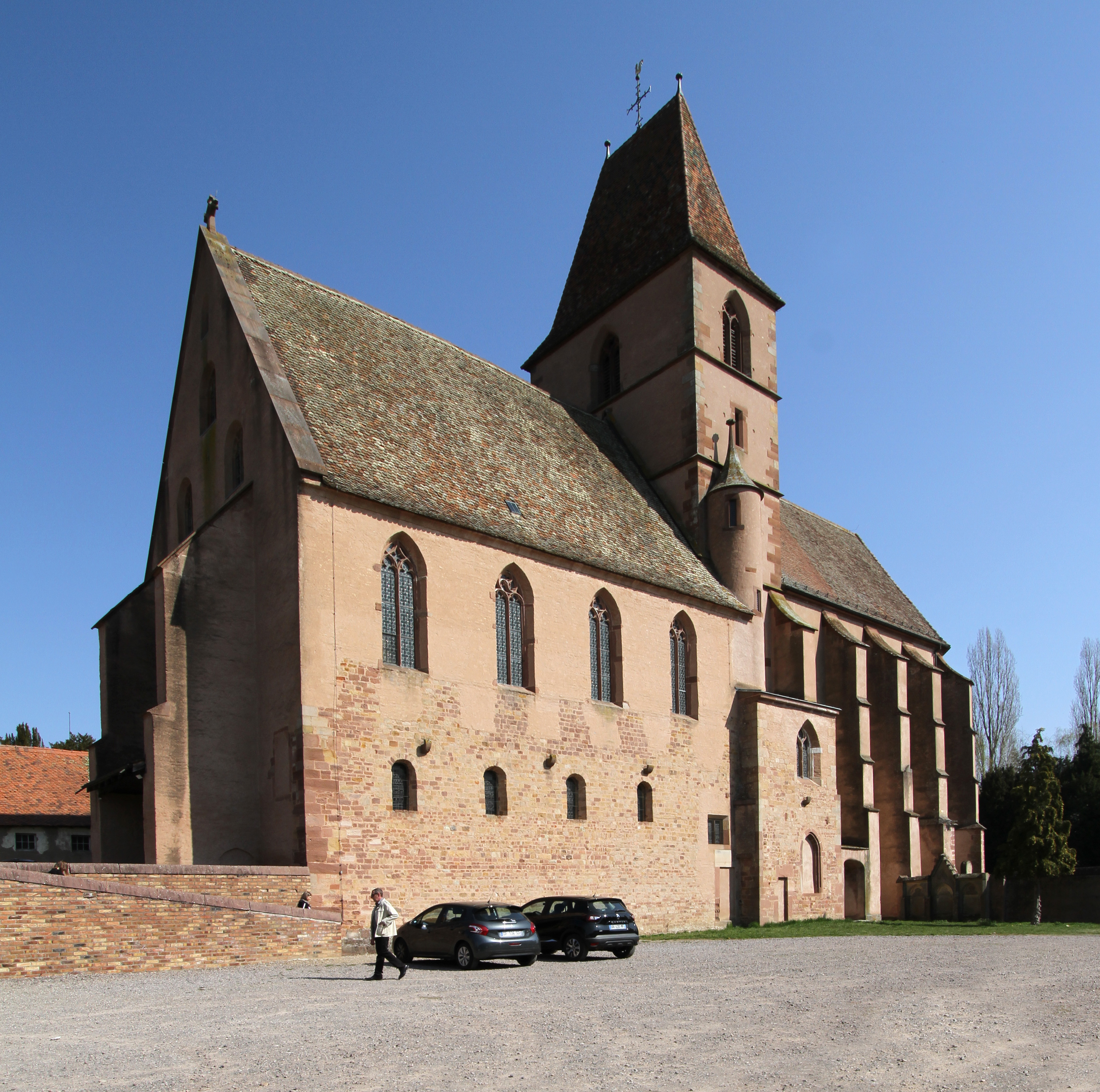 Church of Saint Walburg in Walbourg